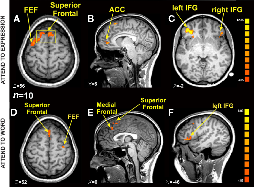 fMRI BOLD activation from Incongruent blocks compared with Congruent blocks in the Expression and Word instruction conditions